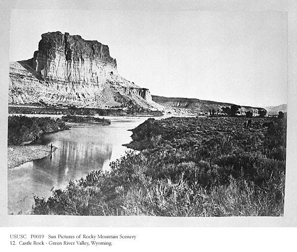 Castle Rock, Green River valley, Wyoming "Sun Pictures of Rocky Mountain Scenery" Photograph Collection, 1868-1870 URL